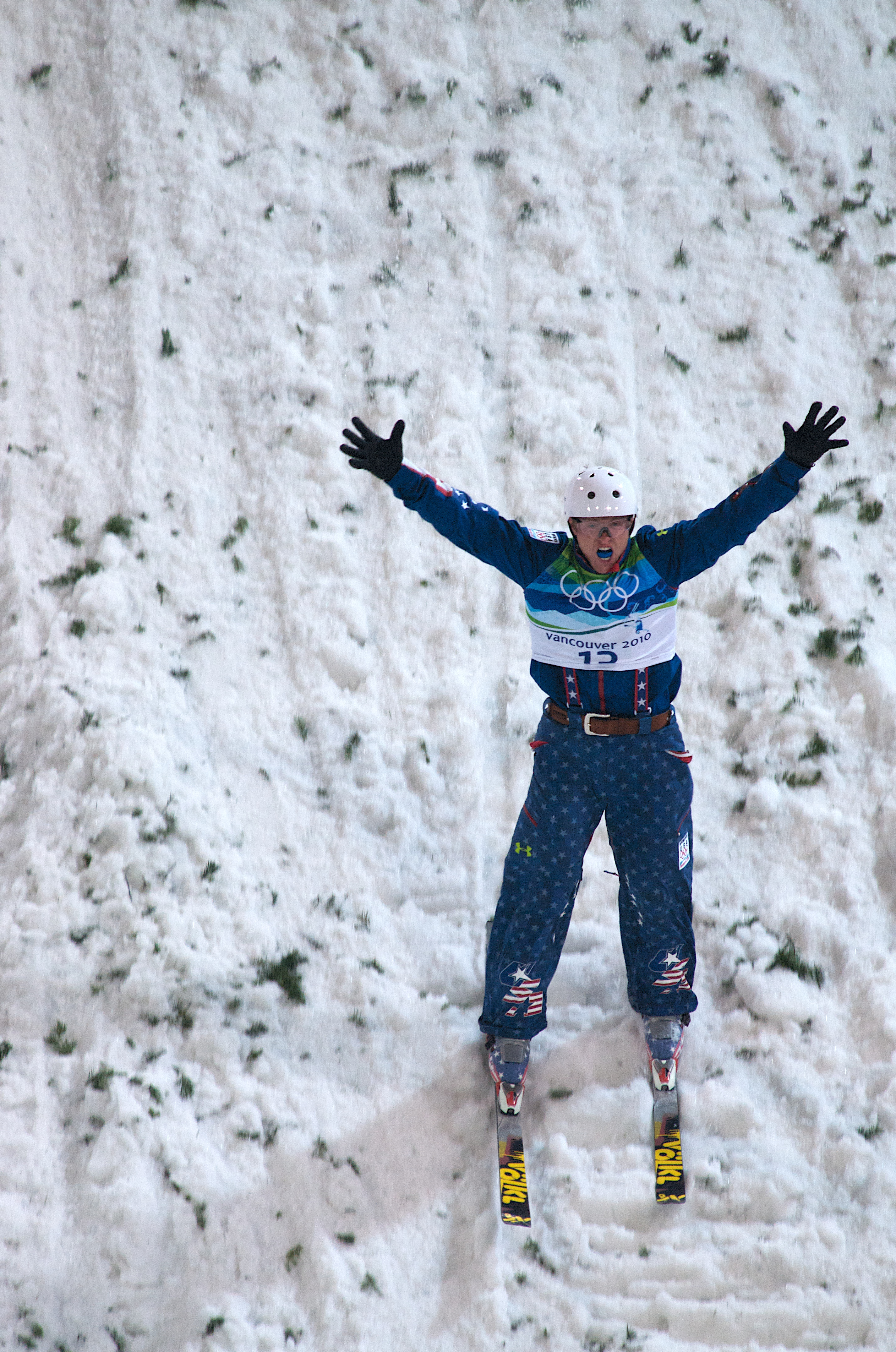 Results: 1. Belarus. GRISHIN Alexei 2. United States. PETERSON Jeret 3. China. LIU Zhongqing